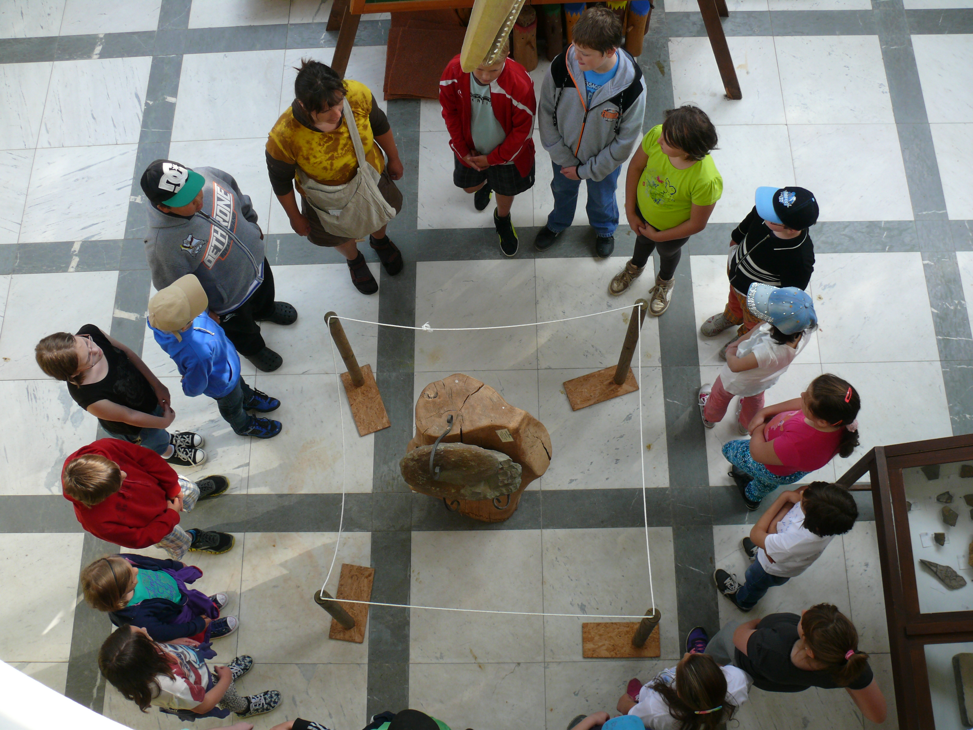 school programme in Nature History Museum Tyn nad Vltavou